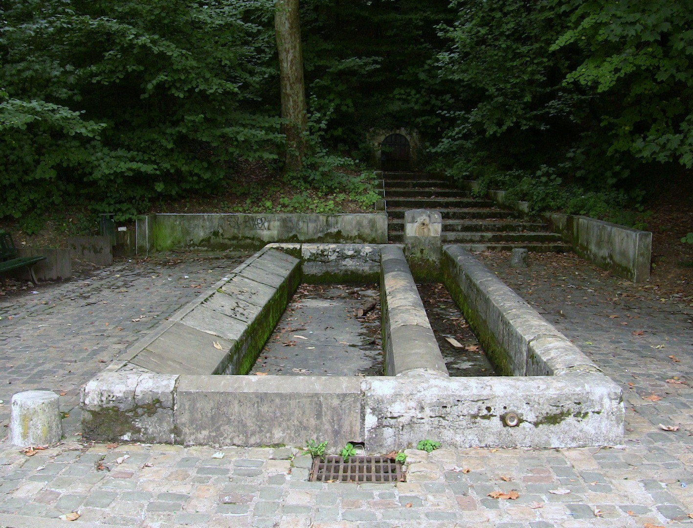 Washhouse of Planoise, in Besançon (France) dating to 1812